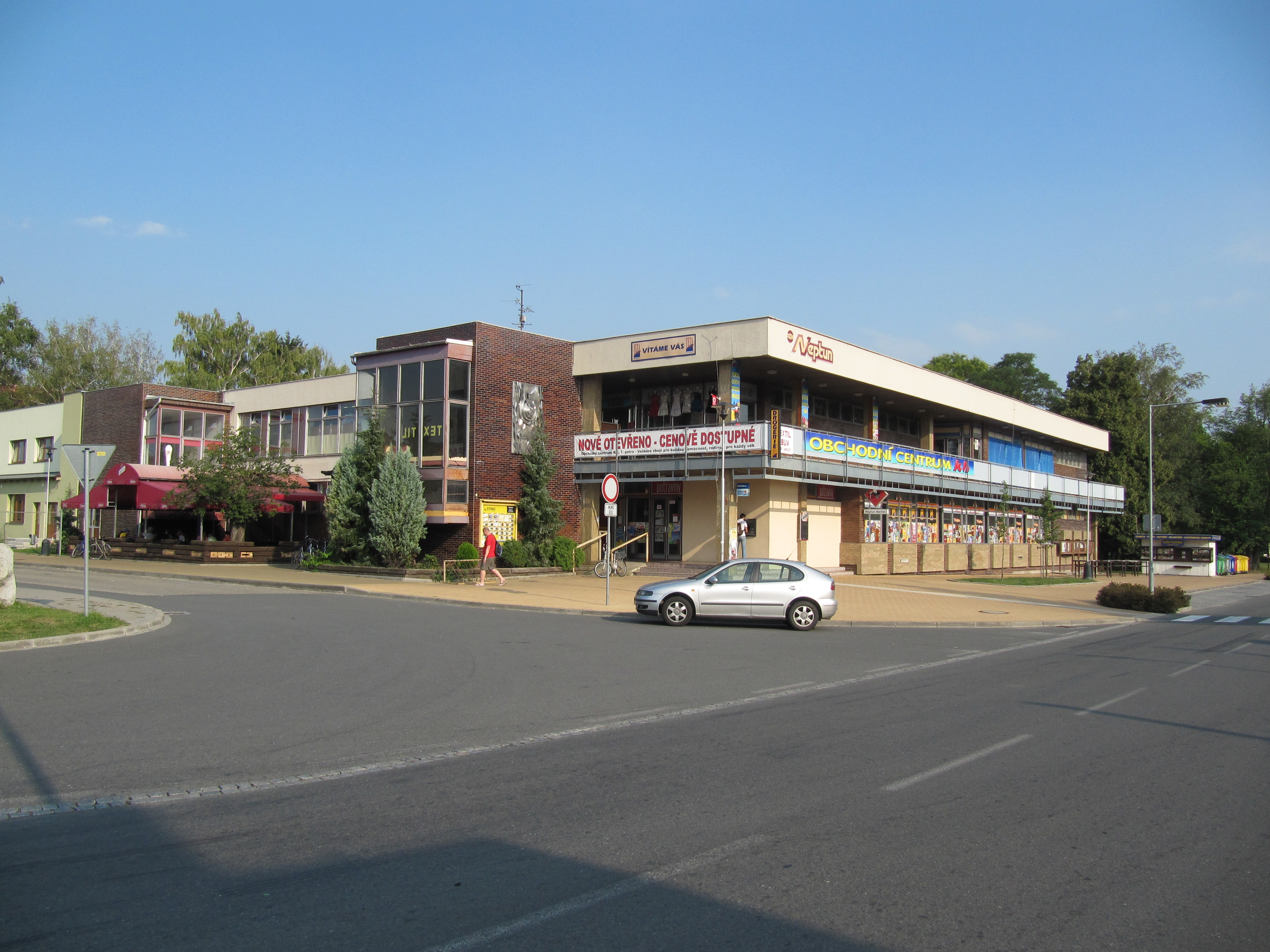 Lutín in Olomouc District, Czech Republic. Shopping center.